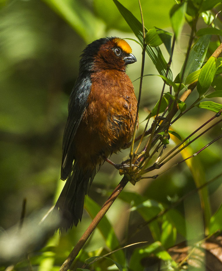 Plush-capped Finch - Colombia_S4E1689